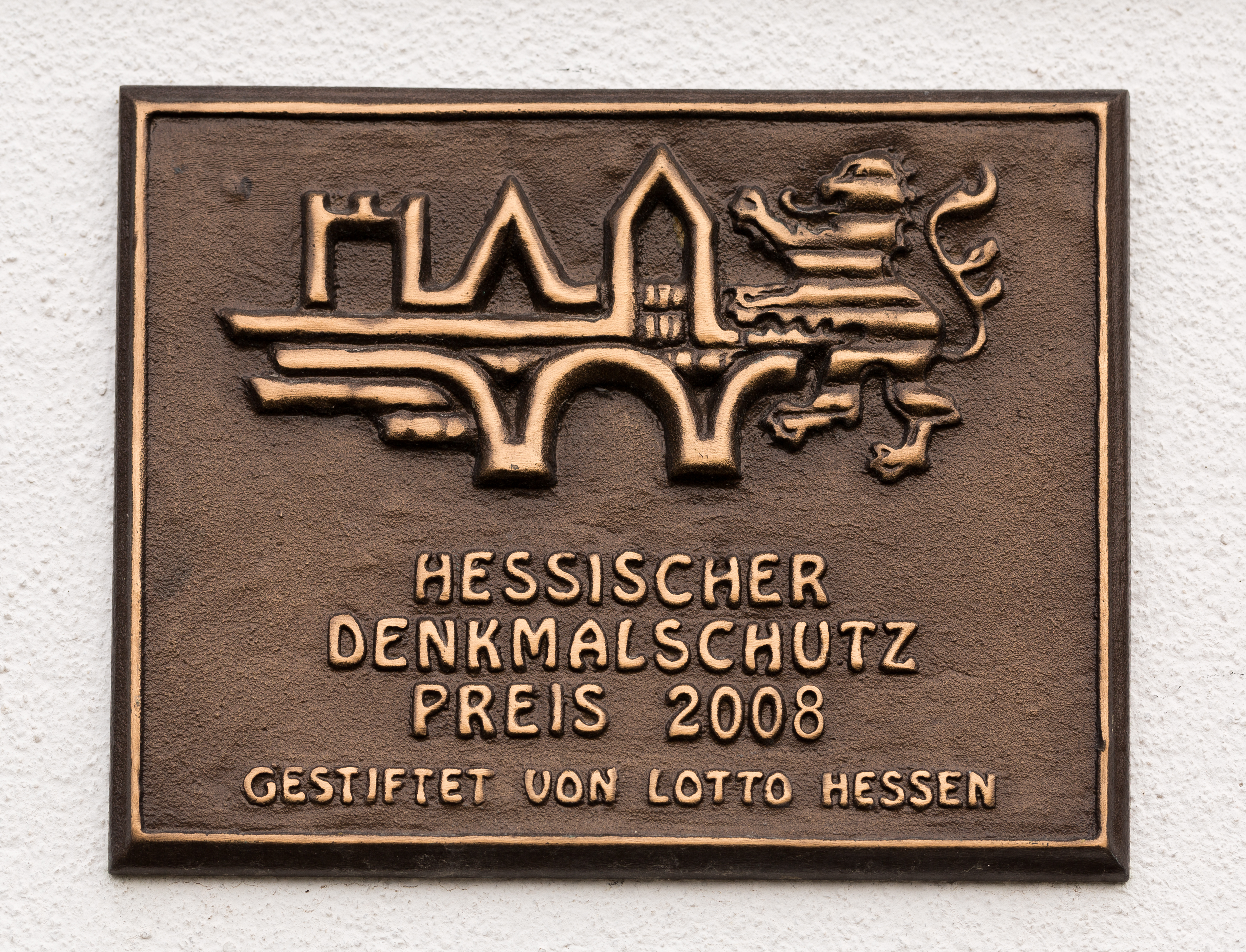 Tafel des Hessischen Denkmalschutzpreis 2008 an den Wanfrieder Schlagdscheunen.